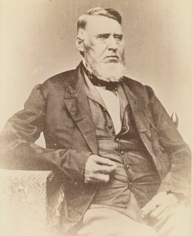 Thomas Bartlett, Jr., Congressman from Vermont